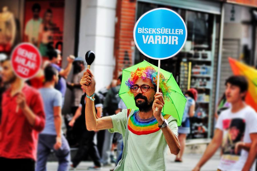 LGBT Parade Pride, (Turkish: 21. LGBT Onur Yürüyüşü), 2013, Taksim, Istanbul.